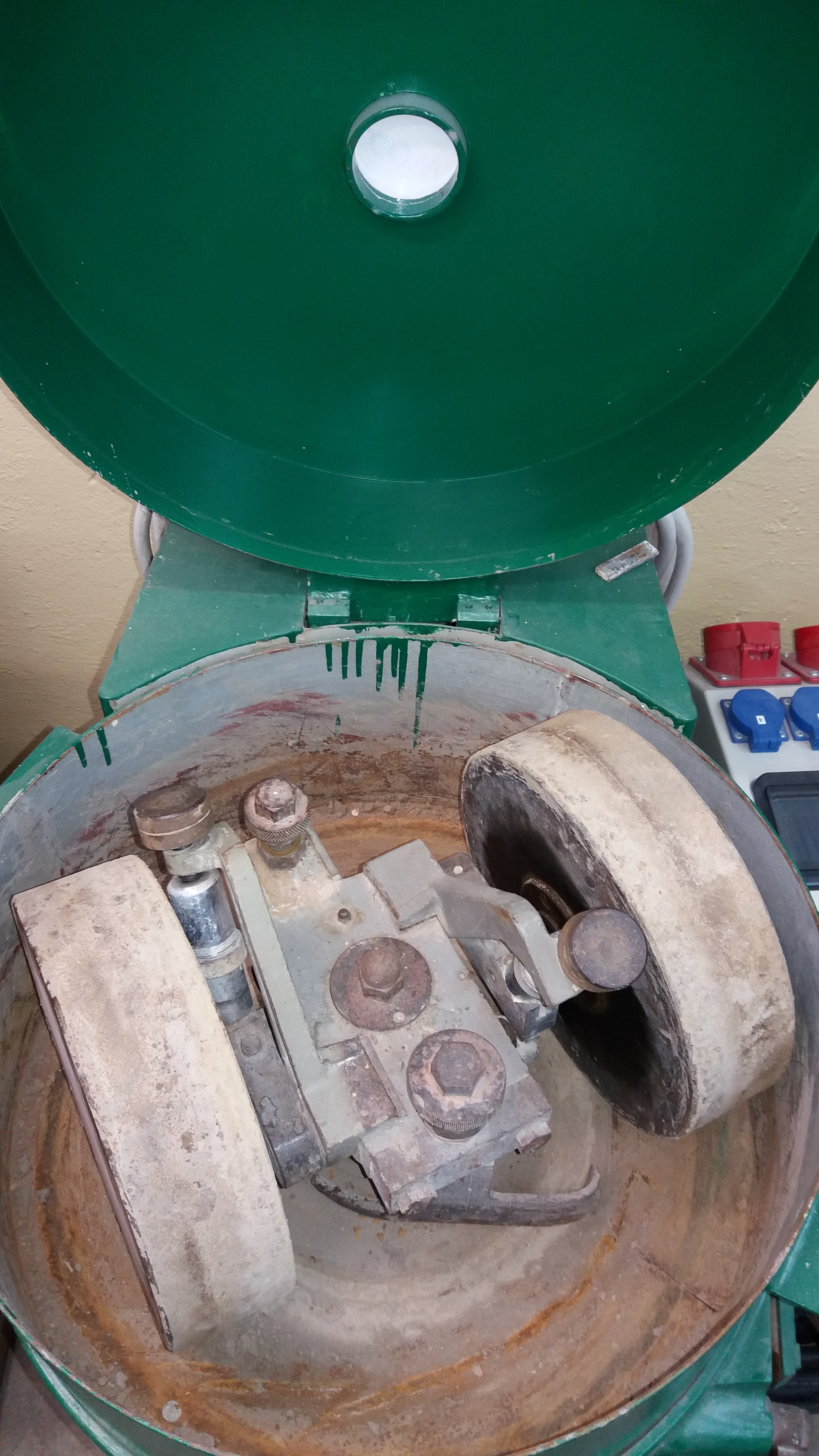 Vertical roller mill. Property of Faculty of Chemistry, Gdańsk University of Technology.